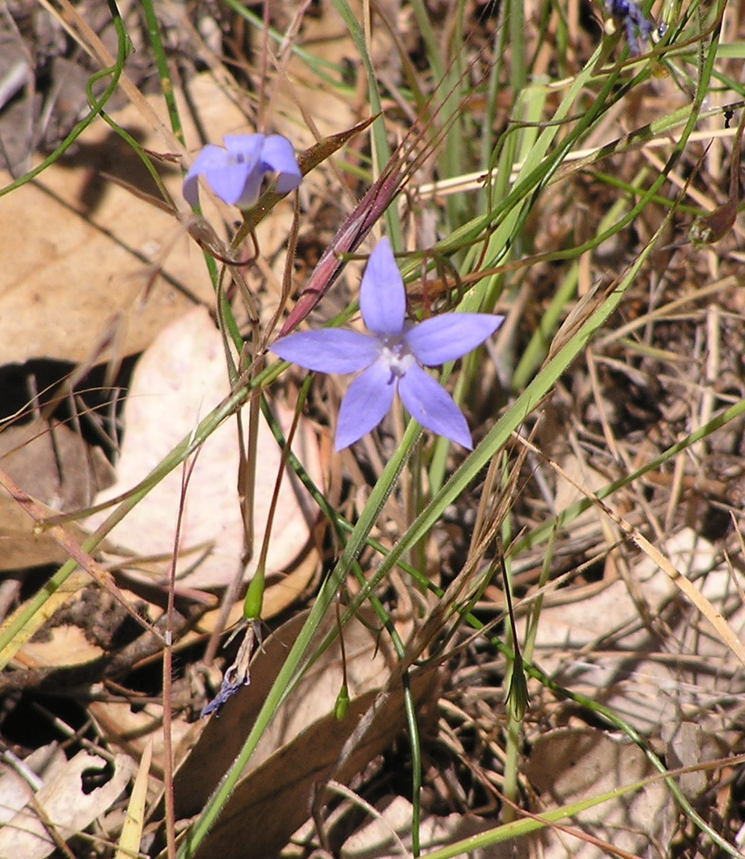 Wahlenbergia stricta (Australian Bluebell, Tall or Austral Bluebell) Picture taken by AYArktos on Red Hill, Canberra - November 2005